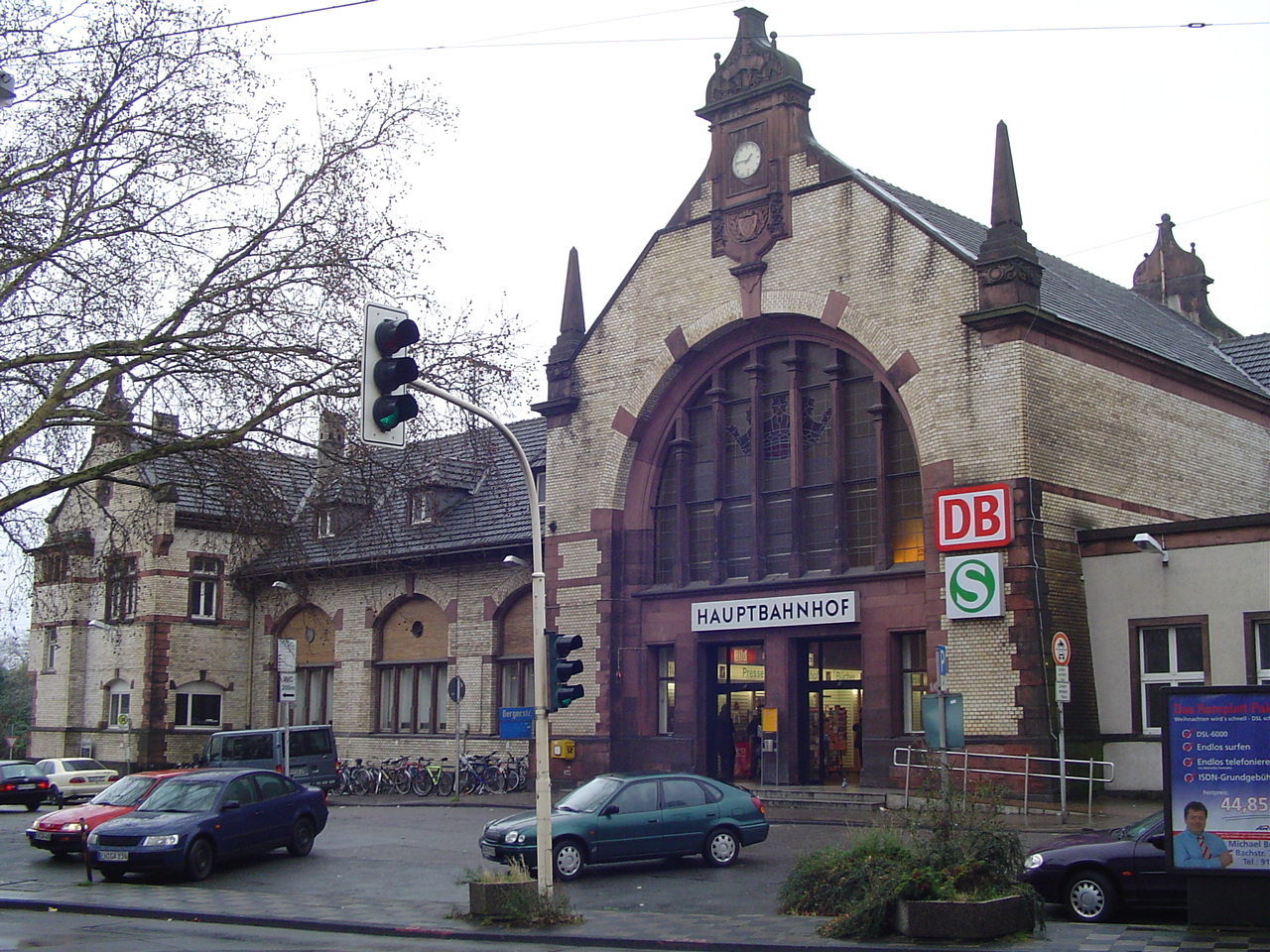 Witten Central Station